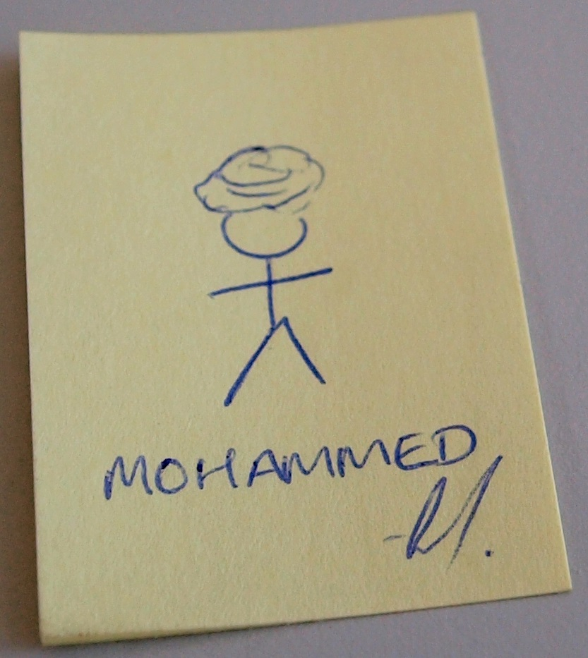 basic mohammed caricature